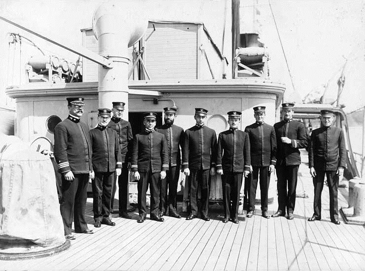 Lieutnant Commander Montgomery Meigs Taylor (far left) and officers of the USS Buffalo during the 1914 Alaska Radio Expedition in Alaska, United States. The Buffalo established a series of radio stations in Alaska to extend radio traffic into the Arctic Circle. This was Taylor's first assignment after serving at the Brooklyn Navy Yard, and his last before attending the Naval War College. During this expedition, the crew learned that World War I had broken out in Europe.